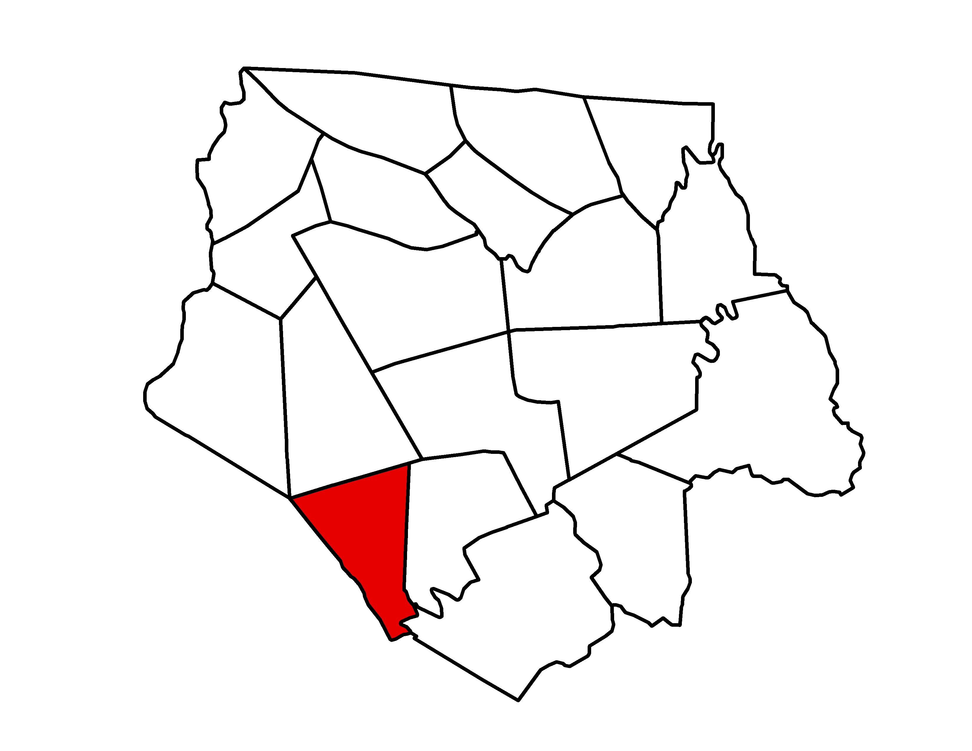 Map highlighting Elk Township in Ashe County, N.C.